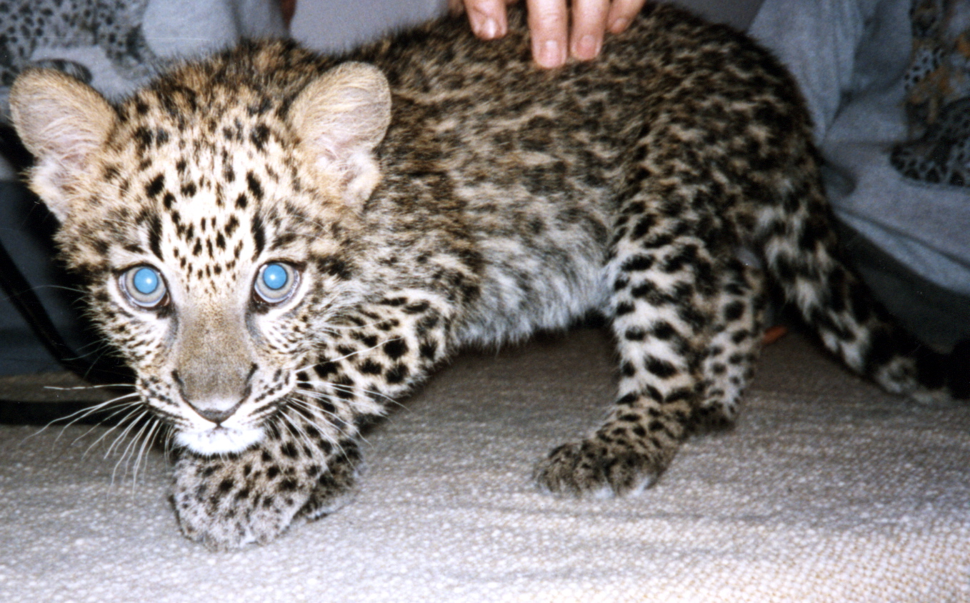 Baby Spotted Leopard.